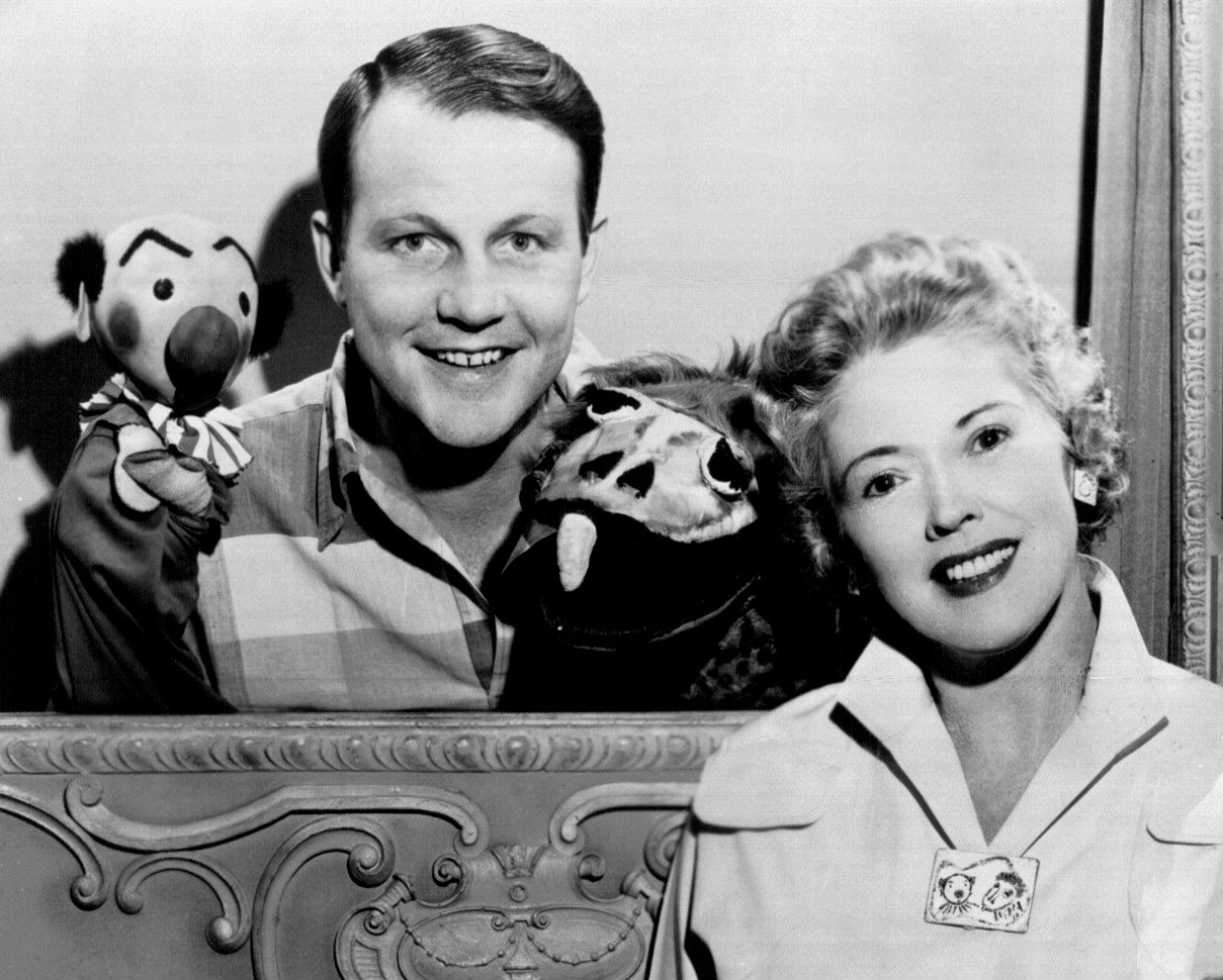 Photo of Burr Tillstrom and Fran Allison with Kukla and Ollie from the television program Kukla, Fran and Ollie.